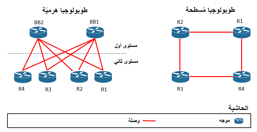 Comparison of network complexity when the hierarchical topology is used versus the flat topology.